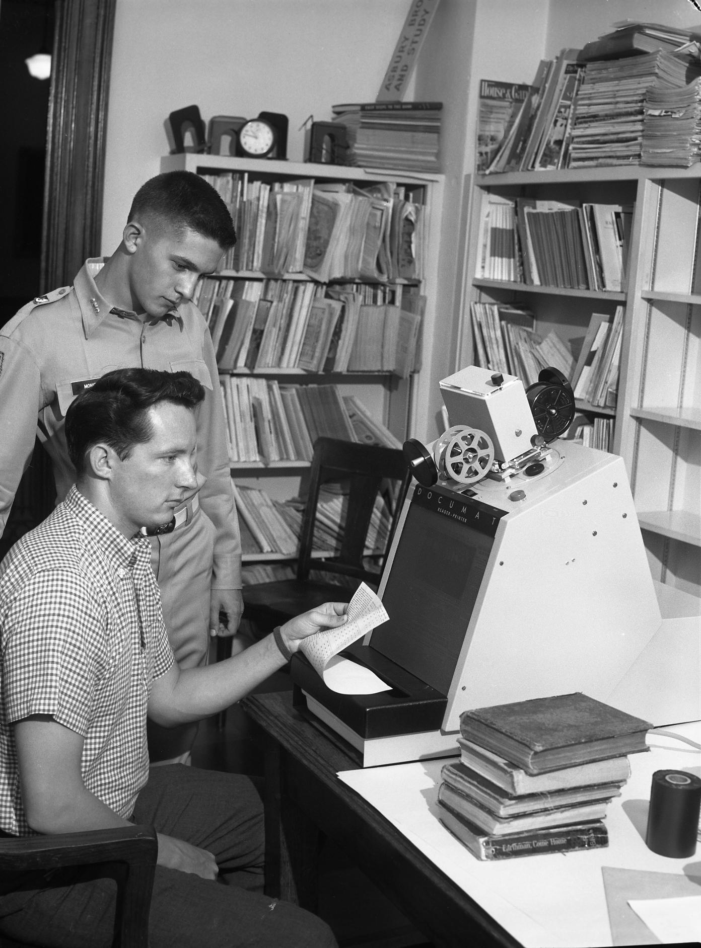 Title: Library Microfilm Reader & Printer Digital Publisher: Digital: Cushing Memorial Library and Archives, Texas A&M University, College Station, Texas Physical Publisher: Physical: Graphic Services, Texas A&M University Date Issued: 2011-08-17 Date Created: 1962 Dimensions: 4 x 5 inches Format Medium: Photographic negative Type: image Identifier: Photograph Location: Graphic Services Photos, Box 35, File 35-552 Rights: It is the users responsibility to secure permission from the copyright holders for publication of any materials. Permission must be obtained in writing prior to publication. Please contact the Cushing Memorial Library for further information